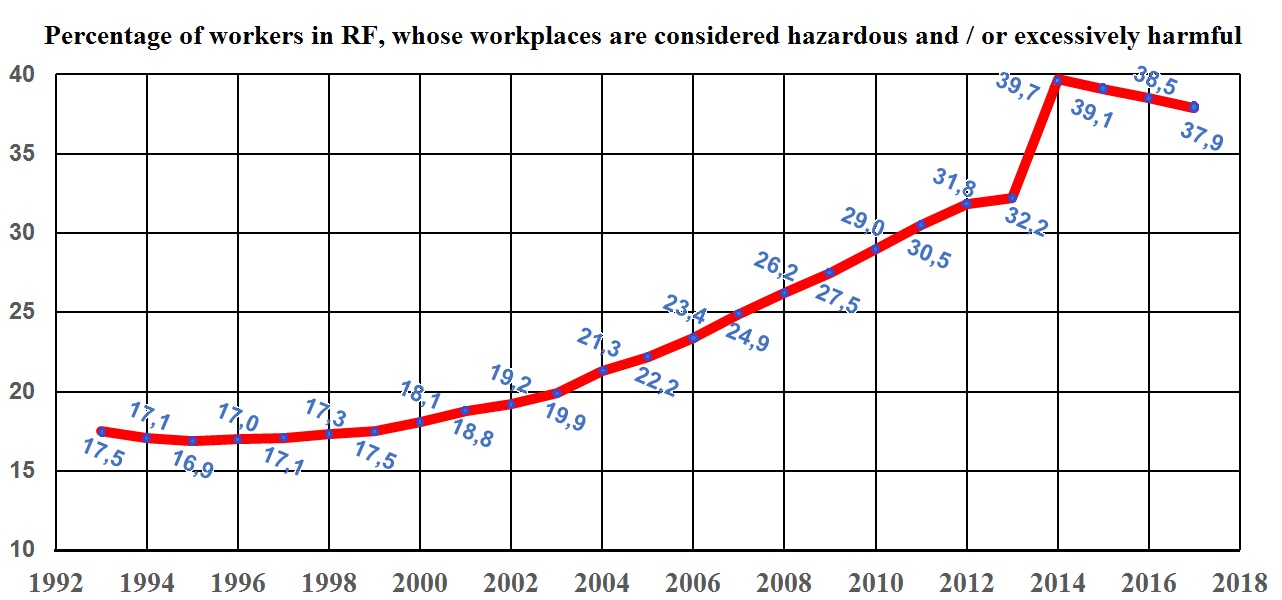 Source: official data of Russian Federal State Statistics Service, document on Russian Socio-economic indicators of the Russian Federation in 1991-2016 / Социально-экономические показатели Российской Федерации в 1991-2016гг. on FSSS site After the destruction of the USSR, the enterprises became owned by new owners who were not interested in preserving the life and health of workers. They did not spend money on equipment modernization, and the share of harmful workplaces increased. The state did not interfere in this, and sometimes it helped employers. At first, the process of growth was slow - due to the fact that in the 1990s this was compensated by mass de-industrialization (factories with foundries and other harmful types of production were closed). In the 2000s, this method of restraining the growth of the share of harmful workplaces was exhausted. Therefore, in 2010s the Ministry of Labor adopted the law 426-FZ, which equated the issuance of personal protective equipment to the employee to real improvement of working conditions; and the Ministry of Health has amended the methods of risk assessment in the workplace. This explains the "decline" in the proportion of workers working in harmful conditions after 2014 - it happened not in practice, but only on paper.